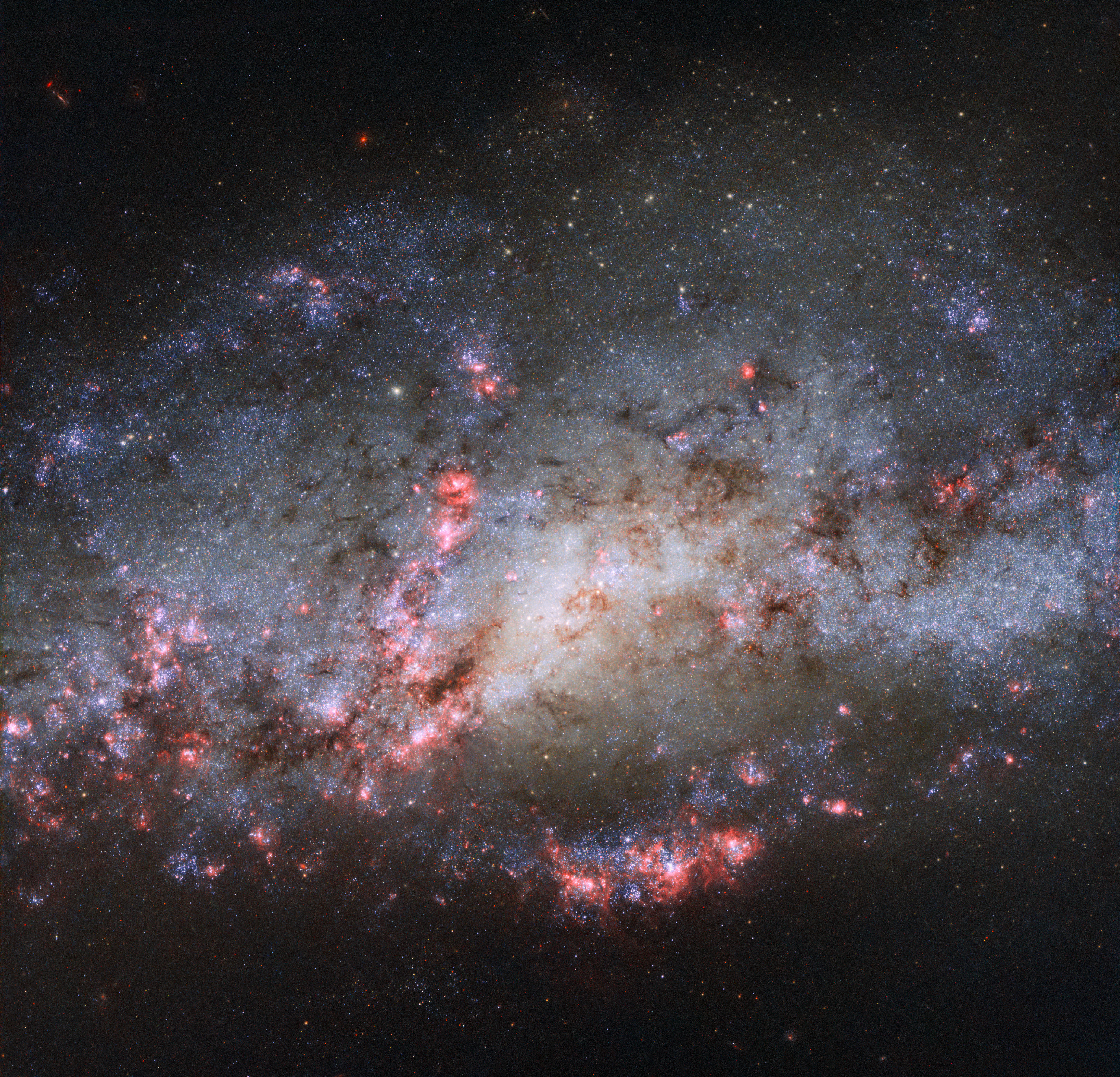 This image, taken with the NASA/ESA Hubble Space Telescope, shows the galaxy NGC 4490. The scattered and warped appearance of the galaxy are the result of a past cosmic collision with another galaxy, NGC 4485 (not visible in this image). The extreme tidal forces of the interaction between the two galaxies have carved out the shapes and properties of NGC 4490. Once a barred spiral galaxy, the outlying regions of NGC 4490 have been stretched out, resulting in its nickname of the Cocoon Galaxy. Coordinates Position (RA): 12 30 35.94 Position (Dec): 41° 38' 29.08" Field of view: 2.73 x 2.62 arcminutes Orientation: North is 195.0° right of vertical Colours & filters Band Wavelength Telescope Ultraviolet UV 275 nm Hubble Space Telescope WFC3 Optical U 336 nm Hubble Space Telescope WFC3 Optical B 438 nm Hubble Space Telescope WFC3 Optical y 475 nm Hubble Space Telescope WFC3 Optical V 555 nm Hubble Space Telescope WFC3 Optical I 814 nm Hubble Space Telescope WFC3 Optical H-alpha + NIII 657 nm Hubble Space Telescope WFC3 .